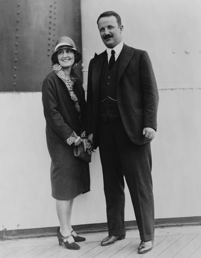 Kermit Roosevelt and his wife Belle, both full-length, standing